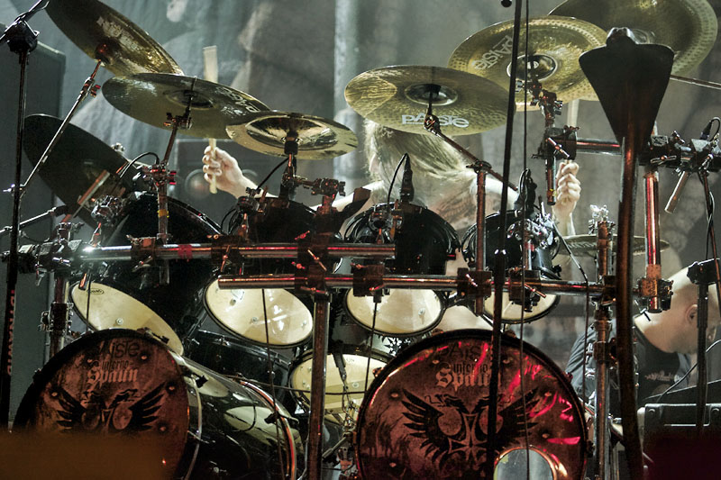 Zbigniew Robert Promiński at Castle Party 2010